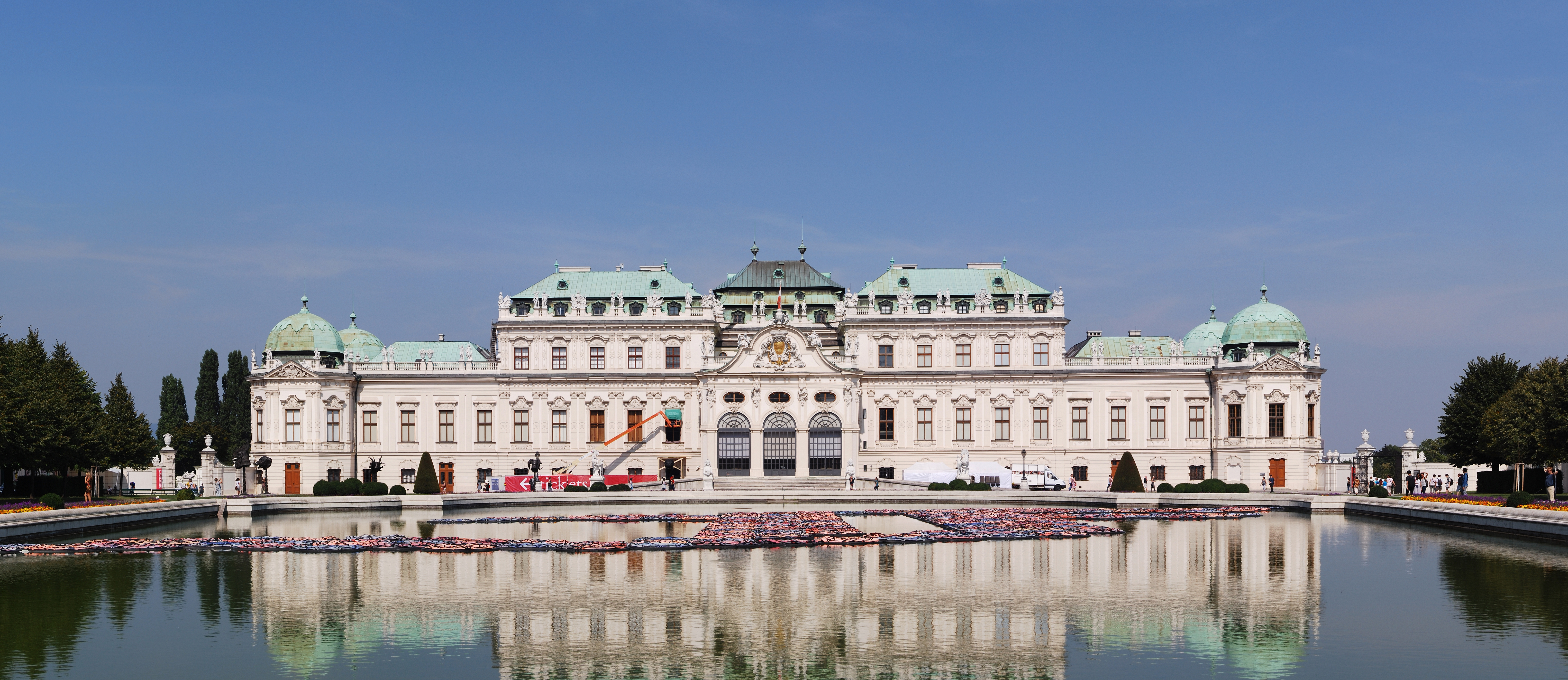 Belvedere, Vienna: Upper Belvedere.